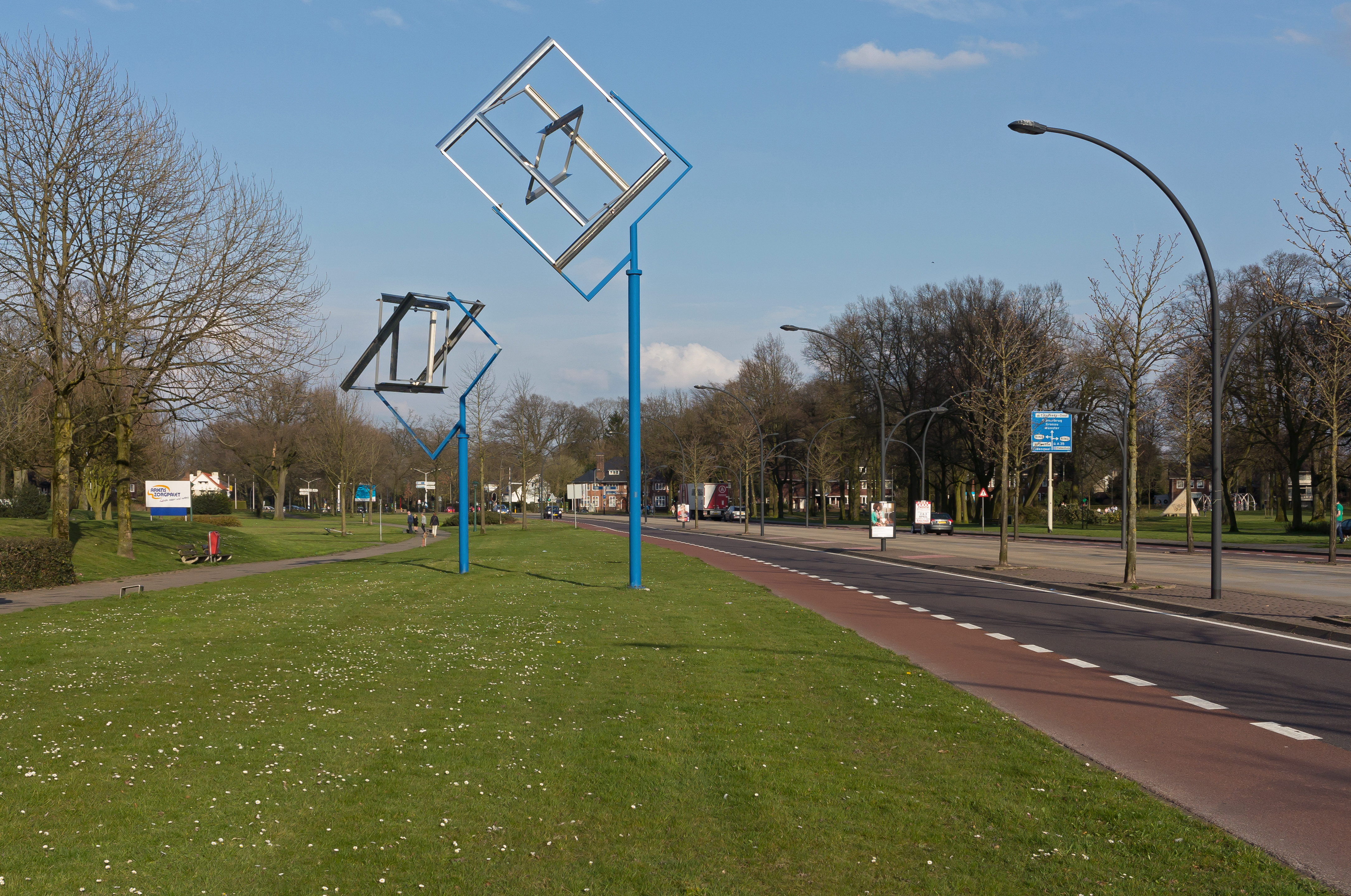 Enschede, sculpture at de Boulevard 1945